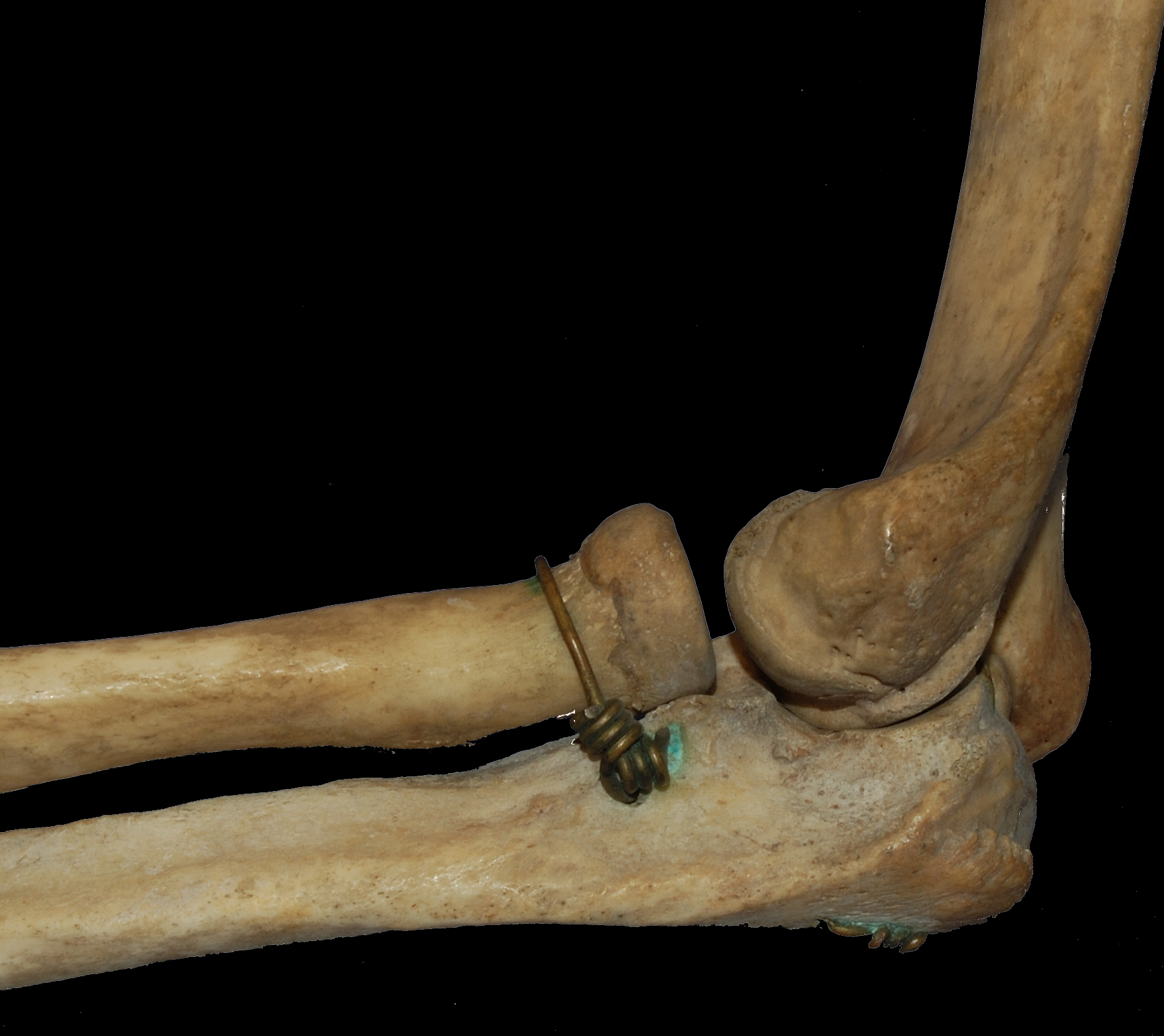 Photograph of Lateral aspect of left human articulation of humerus, radius, and ulna. Keywords: Human bones, bones, elbow, radius, ulna, humerus, lateral epicondyle.